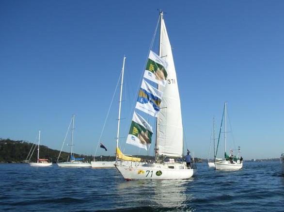 Dec 21st 2005. Berrimilla arrives back in Sydney after her first circumnavigation with the 2005 Fastnet race battle flag between the 2004 and 2005 Sydney - Hobart flags telling the story of her voyage. This was a unique achievement and is unlikely ever to be repeated.